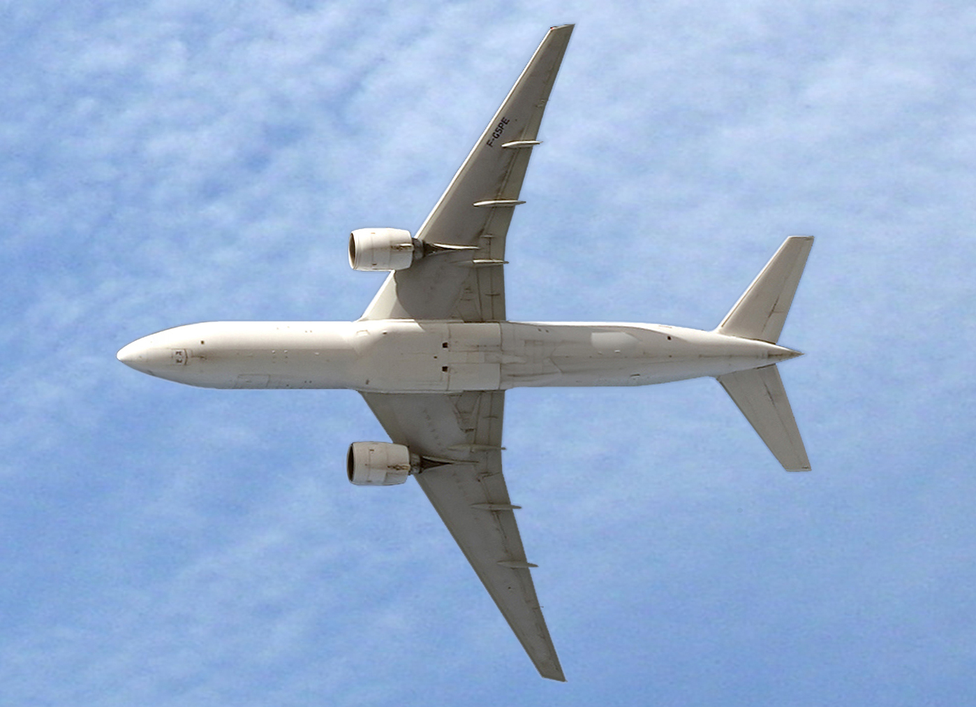 F-GSPE (29006), AF117 PVG-CDG Description: Cirrocumulus stratiformis and blue blue sky... * Photographer: Simon Eugster --Simon 15:45, 7 Apr 2005 (UTC) * Licence